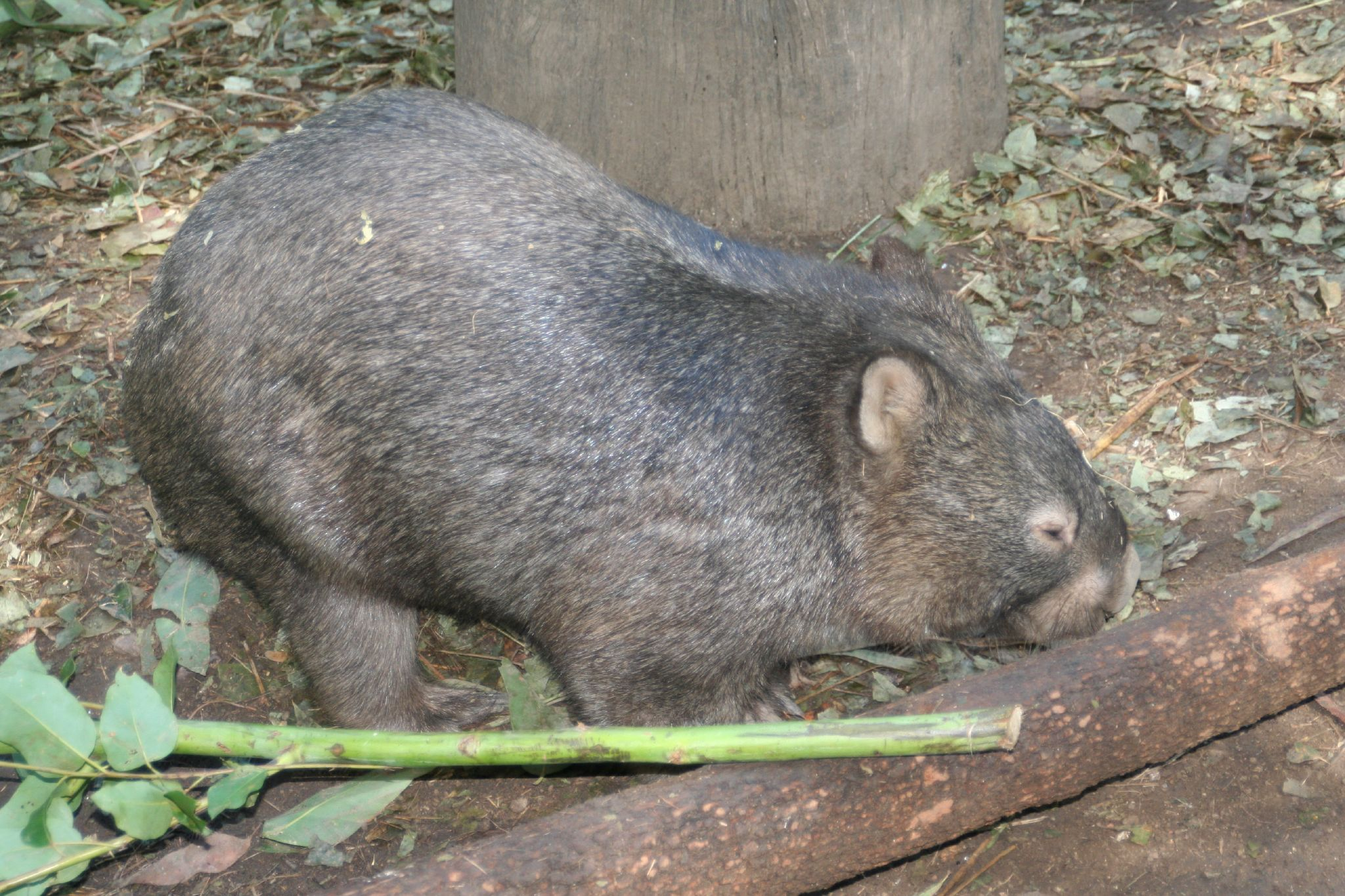 Borris the Womabat at Lone Pine Koala Sanctuary